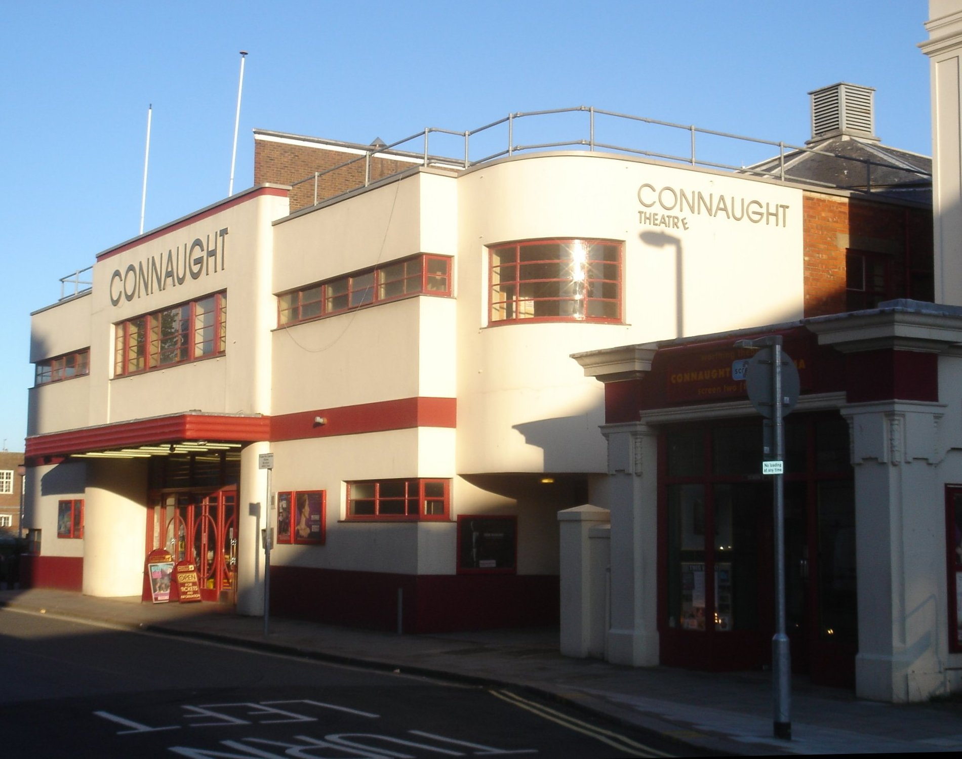 Connaught Theatre, Union Place, Worthing, West Sussex, England. The theatre's predecessor was founded in 1916, and the licence to operate as the Connaught Theatre was granted in 1931. It moved to this Art Deco building (previously the Picturedrome Cinema) in 1935.